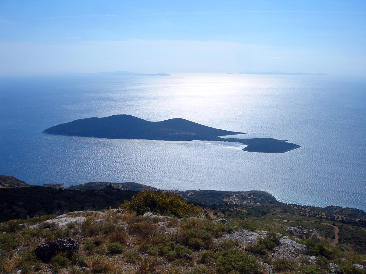 Samiopoula (in Greek Σαμιοπούλα) as seen from mount Bournias on the south of Samos. The islands of Arkioi and Patmos are visible in the background.